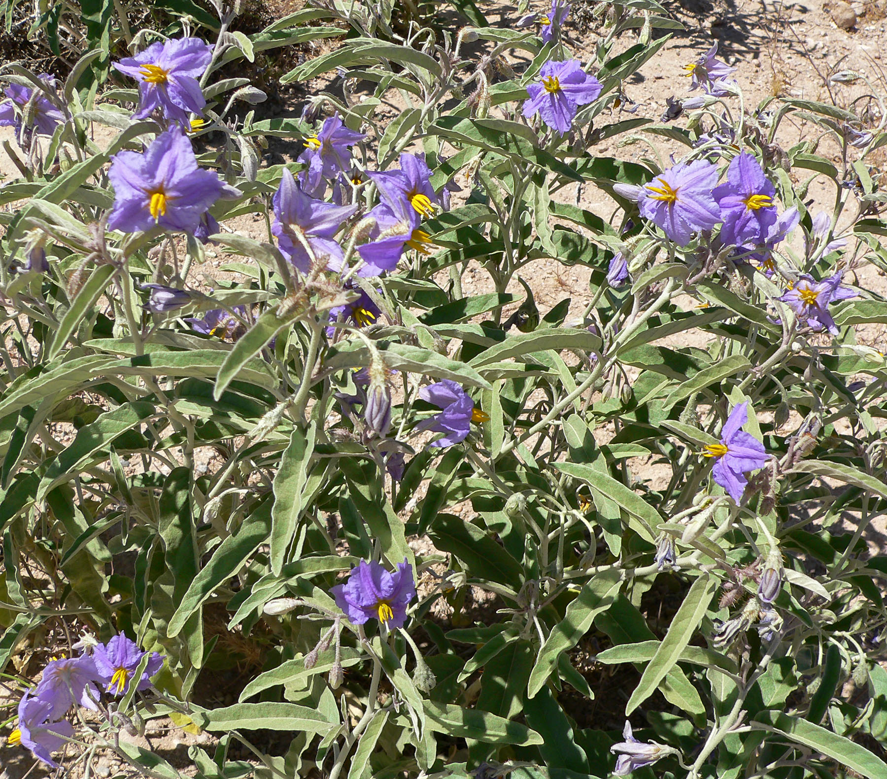 Solanum elaeagnifolium on a roadside near Goodsprings, Nevada